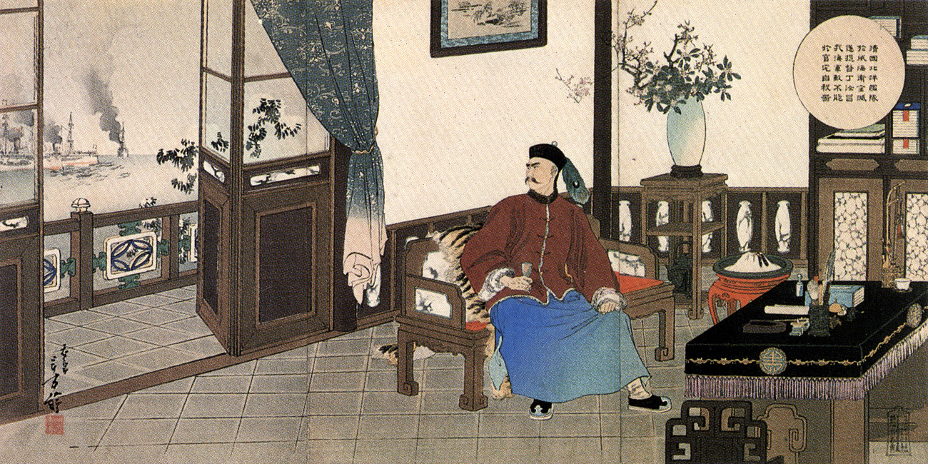 Admiral Ding Juchang of the Chinese Beiyang Fleet, Totally Destroyed at Weihaiwei, Commits Suicide at His Official Residence